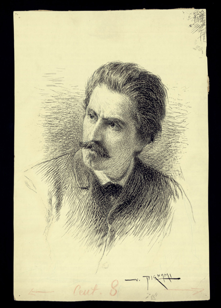 Portrait of Eugenio Checchi, journalist (1838-1932), before 1929.